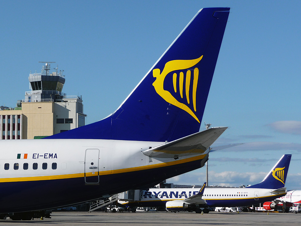 A Ryanair Boeing 737-800, reg. EI-EMA at the gate of Madrid-Barajas Airport.